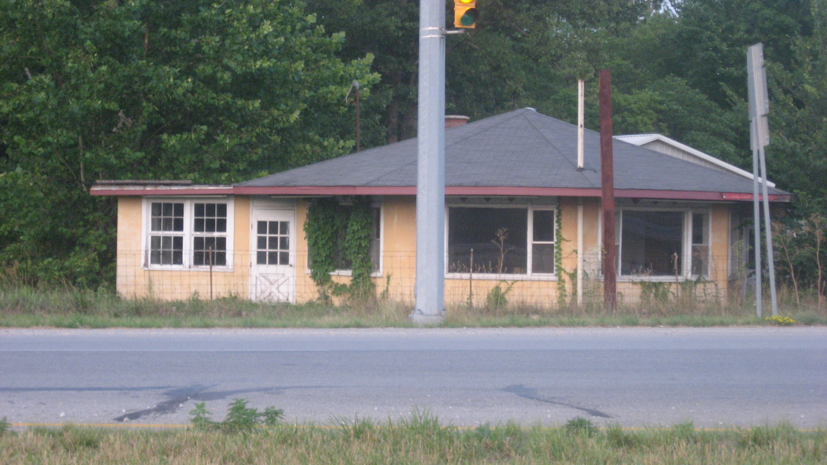 Western sides of the former Circus Drive-In, located at 6125 U.S. Route 31 at the highway's junction with State Road 218, south of Peru in Pipe Creek Township, Miami County, Indiana, United States. Built in 1967, it is part of the Terrell Jacobs Circus Winter Quarters complex, a historic district that is listed on the National Register of Historic Places.